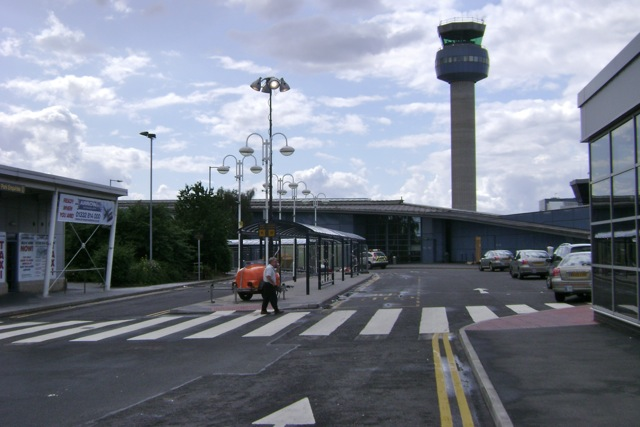 East Midlands Airport, drop-off bays, Departures and Control Tower